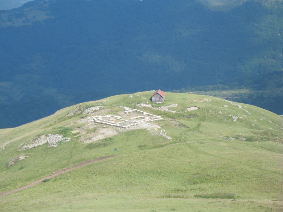 View on Nebeske stolice (Cellestial chairs) archaeological site below Pančićs peak on Kopaonik,Serbia.